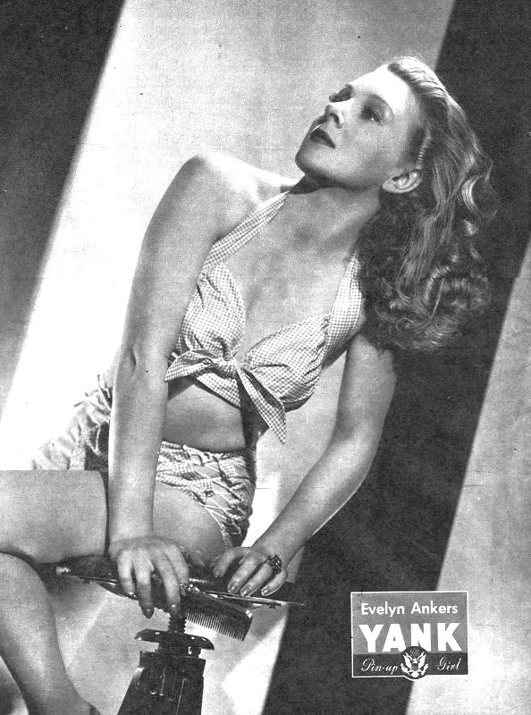 Pin-up photo of Evelyn Ankers for the Jul. 13, 1945 issue of Yank, the Army Weekly, a weekly U.S. Army magazine fully staffed by enlisted men.